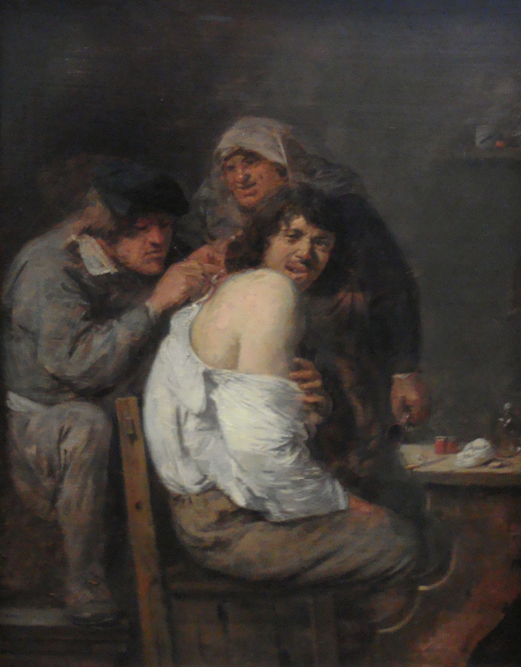 The Back Operationlabel QS:Lde,"Die Operation am Rücken"label QS:Len,"The Back Operation"